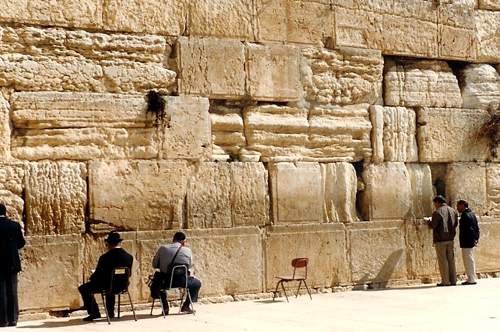 Israel, Old Jerusalem, Western Wall